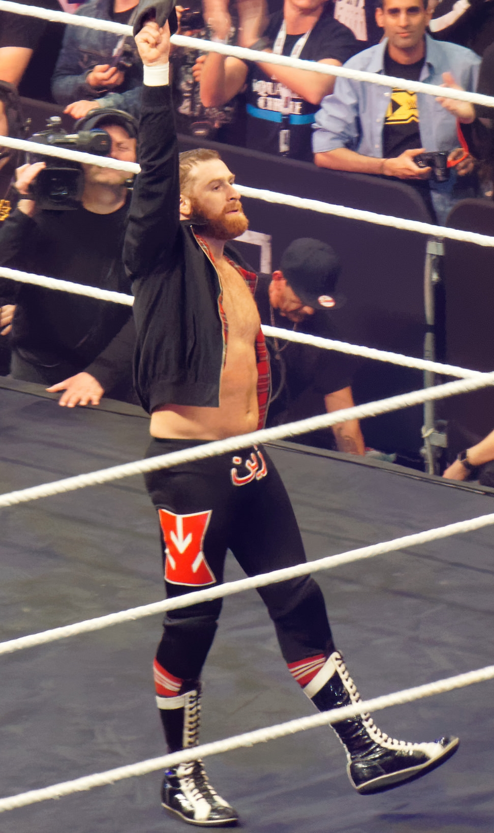 Sami Zayn at NXT TakeOver: Dallas event in April 1, 2016.